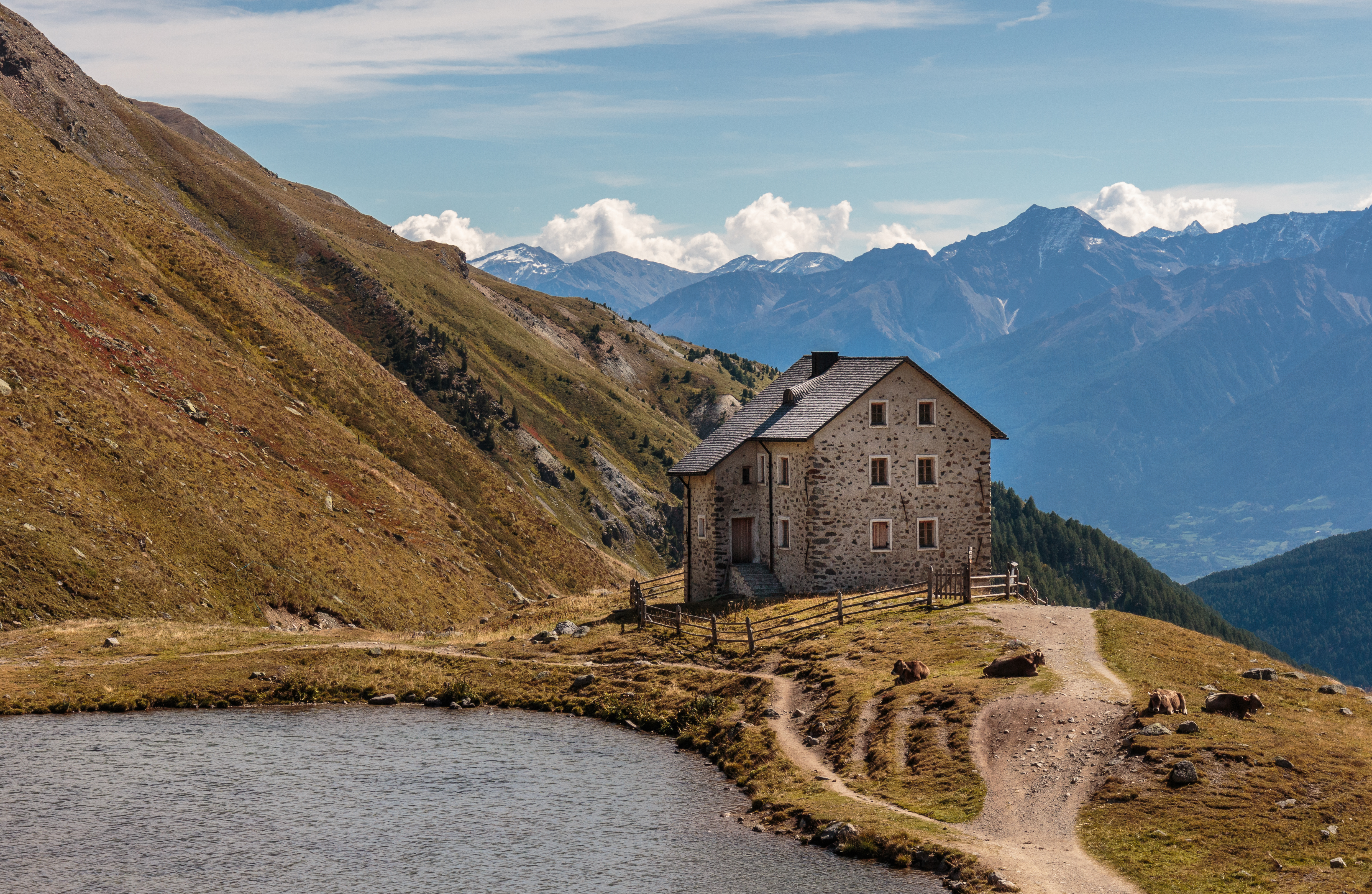 Mountain tour from Watles via Sesvennahütte and the Uina Slucht to Sur En Alte Pforzheimer Huette on the Pforzheimer See.